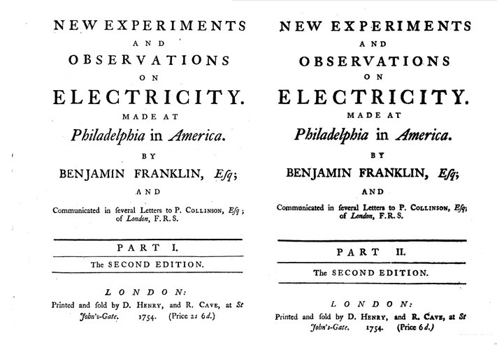 Book cover 1754 for New Experiments and Observations on Electricity by Benjamin Franklin